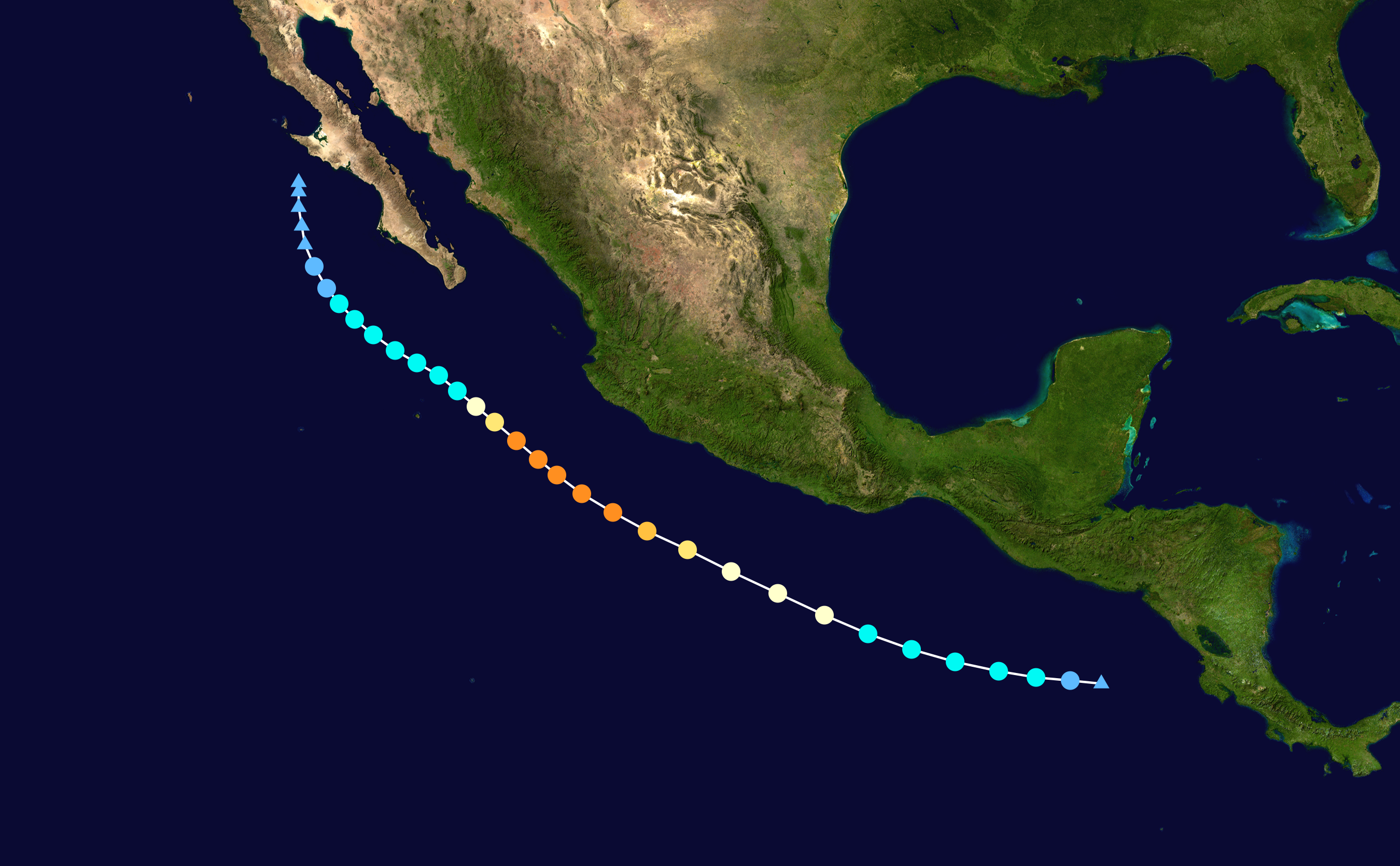 Track map of Hurricane Dora of the 2011 Pacific hurricane season. The points show the location of the storm at 6-hour intervals. The colour represents the storm's maximum sustained wind speeds as classified in the Saffir–Simpson scale (see below), and the shape of the data points represent the nature of the storm, according to the legend below. Saffir–Simpson scale Tropical depression≤38 mph≤62 km/h Category 3111–129 mph178–208 km/h Tropical storm39–73 mph63–118 km/h Category 4130–156 mph209–251 km/h Category 174–95 mph119–153 km/h Category 5≥157 mph≥252 km/h Category 296–110 mph154–177 km/h Unknown Storm type Tropical cyclone Subtropical cyclone Extratropical cyclone / Remnant low / Tropical disturbance / Monsoon depression